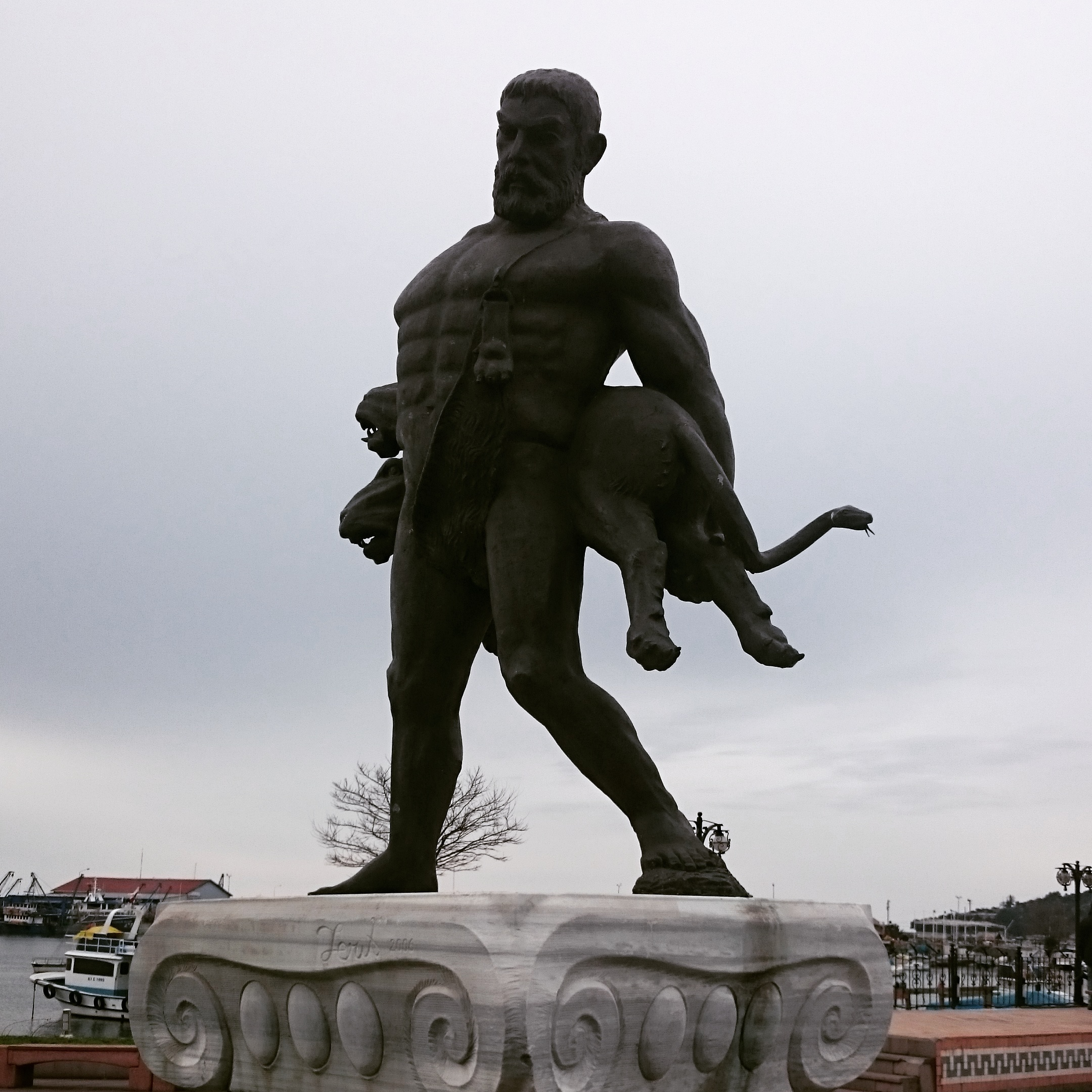 Herecles monument. A photo from the Ereğli district, 8 February 2015.